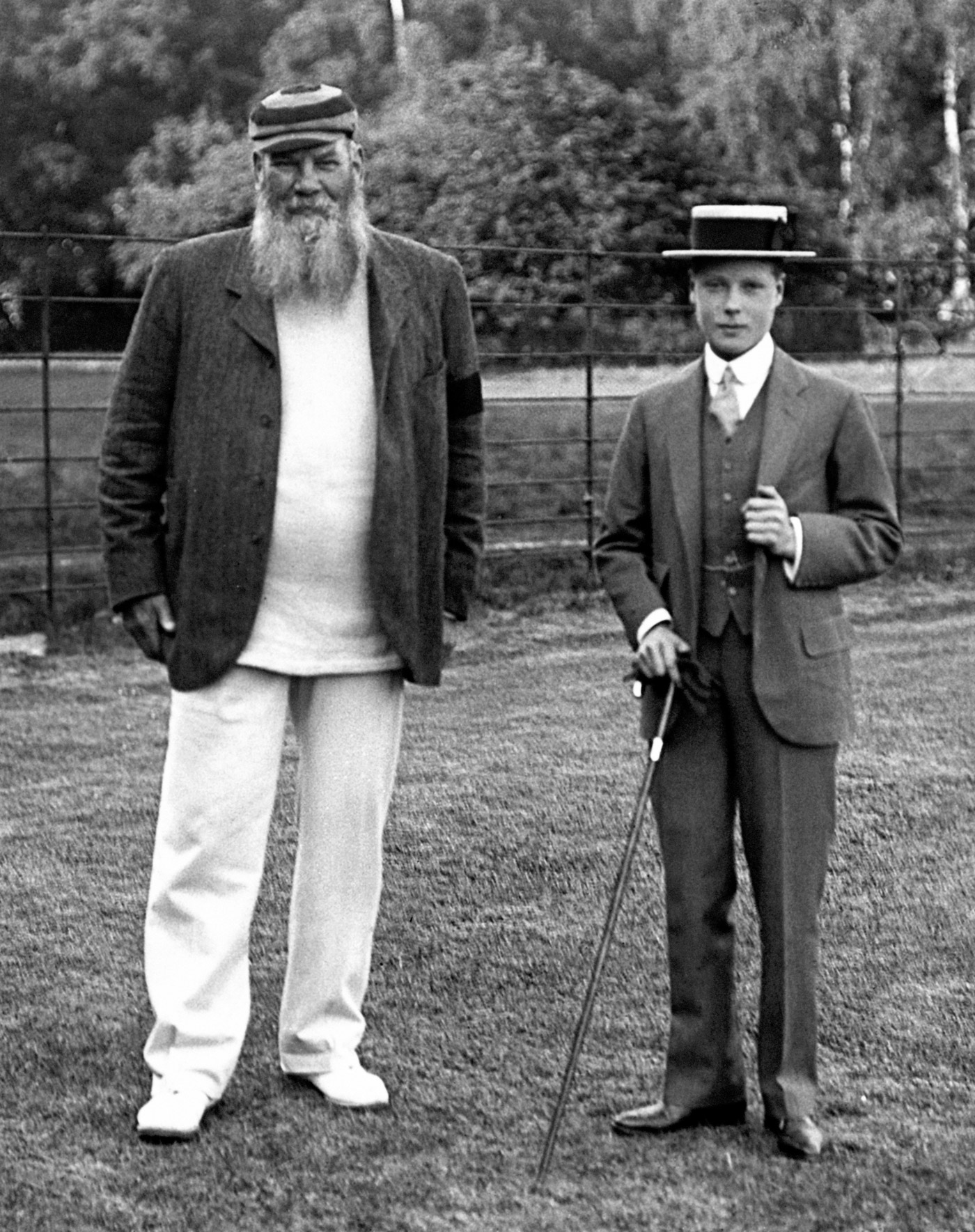 English cricketer W. G. Grace photographed with the future King Edward VIII.